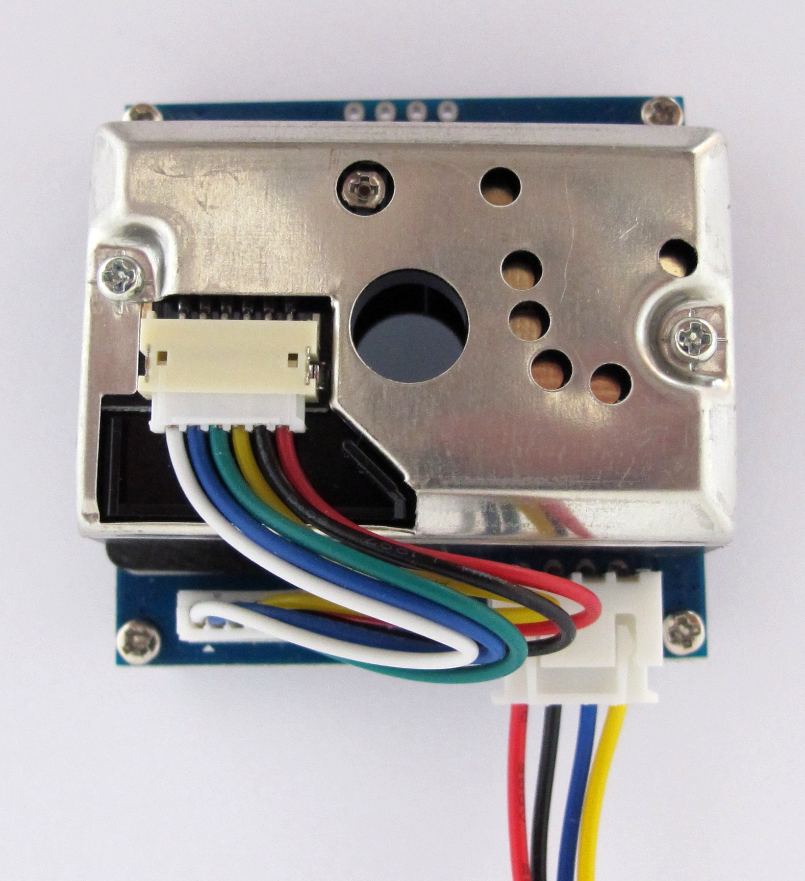 Optical dust sensor type GP2Y1010AU0F. This device is an automatic running electronic sensor to detect house dust or cigarette smoke in air. Applications are air purifier units and air conditioners. The air to be examined passes through the centric hole where a infraed LED (transmitter) and a IR detector is located. The sensitivy range goes from 0.05 mg/m³ to 3.5 mg/m³ (dust per cubic meter)